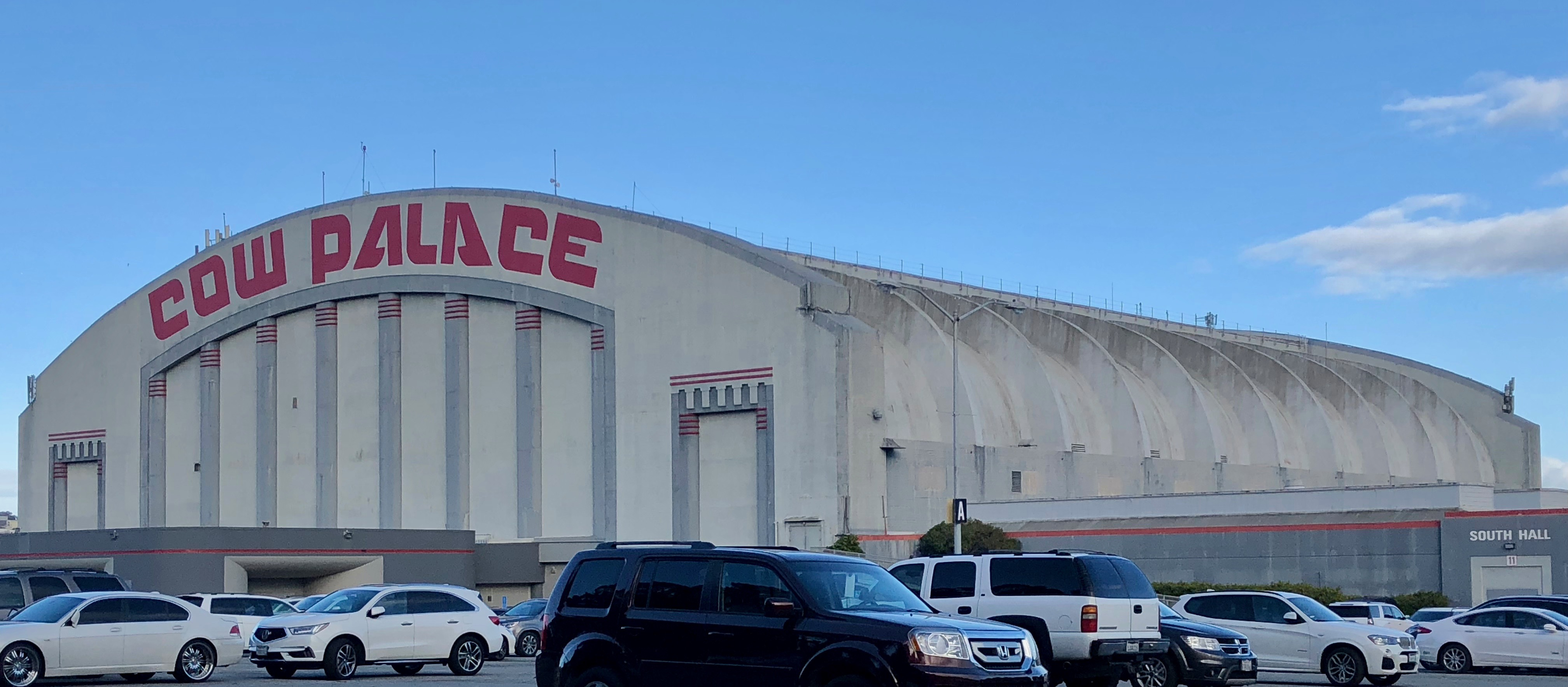 Cow Palace in February 2018